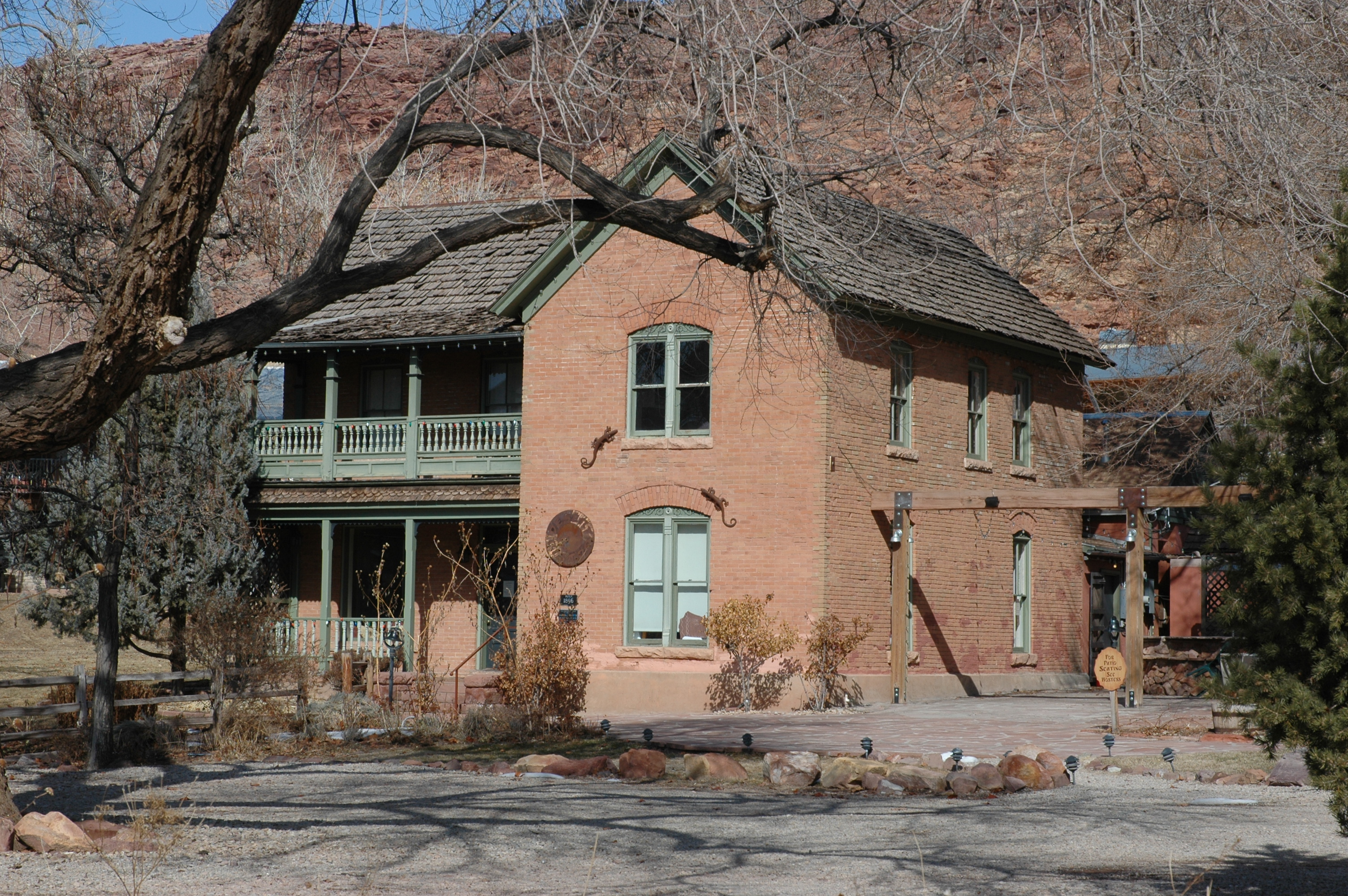 The Arthur Taylor House, a historic home in Moab, Utah, United States.